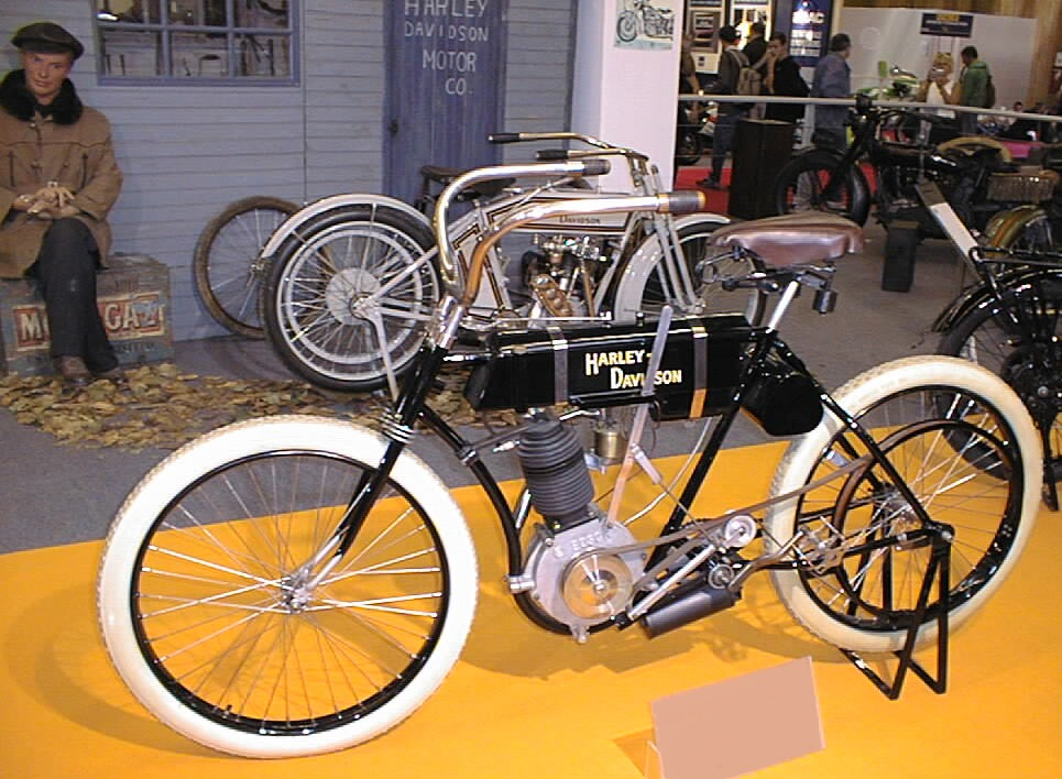 Harley-Davidson "The First" by William Harley, Arthur and Walter Davidson; model "0"; monocylinder; 400 cc; 1-speed; year 1903. Photo taken at the Mondial du deux roues in Paris, 2003.